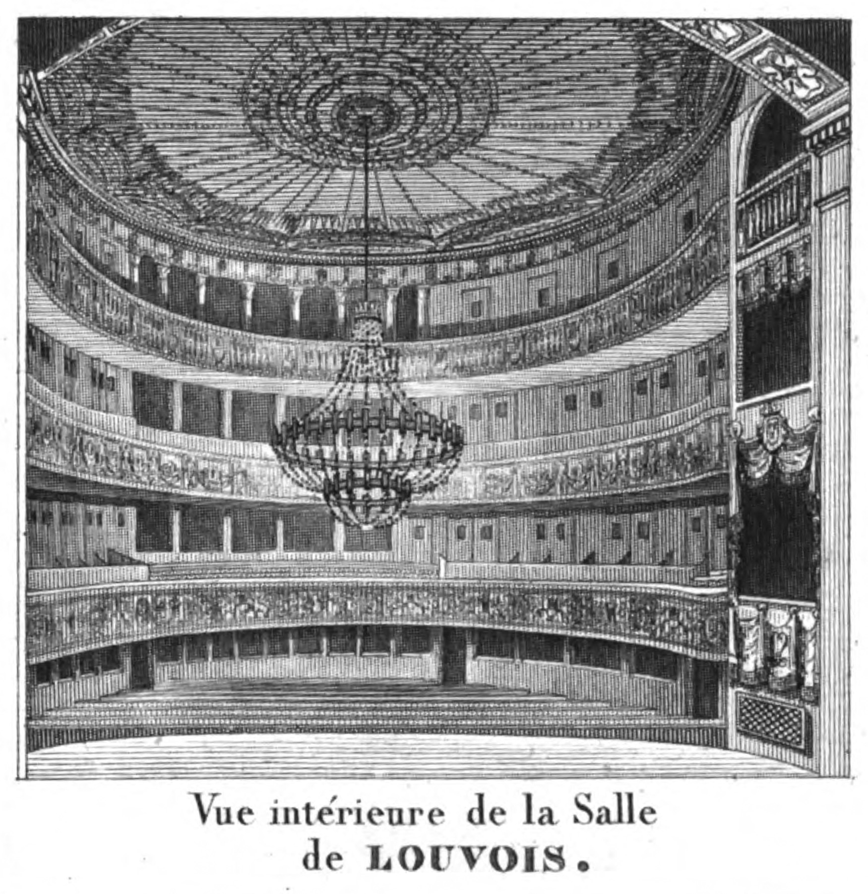 Interior view of the Théâtre Louvois in Paris